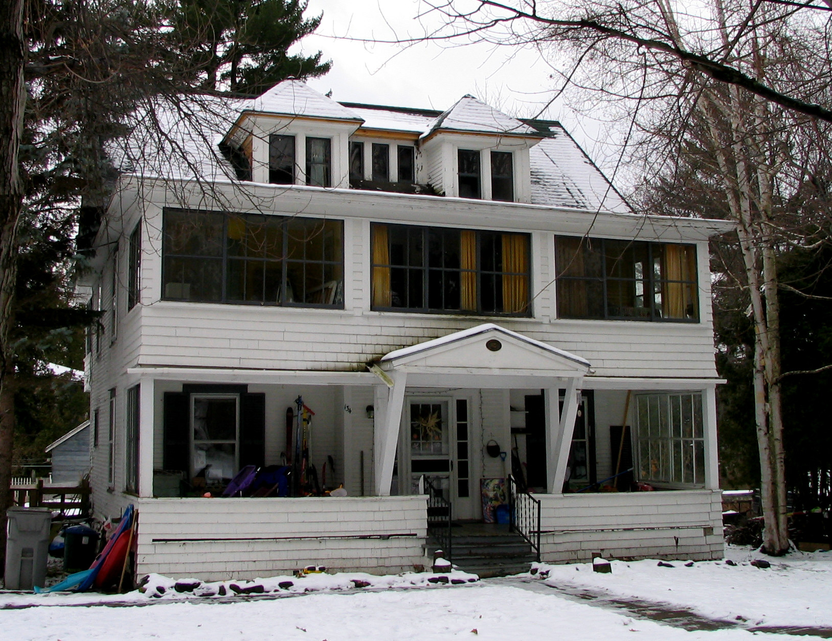 The Walker Cure Cottage in Saranac Lake, New York. Taken by User:Mwanner, 29 November, 2007.